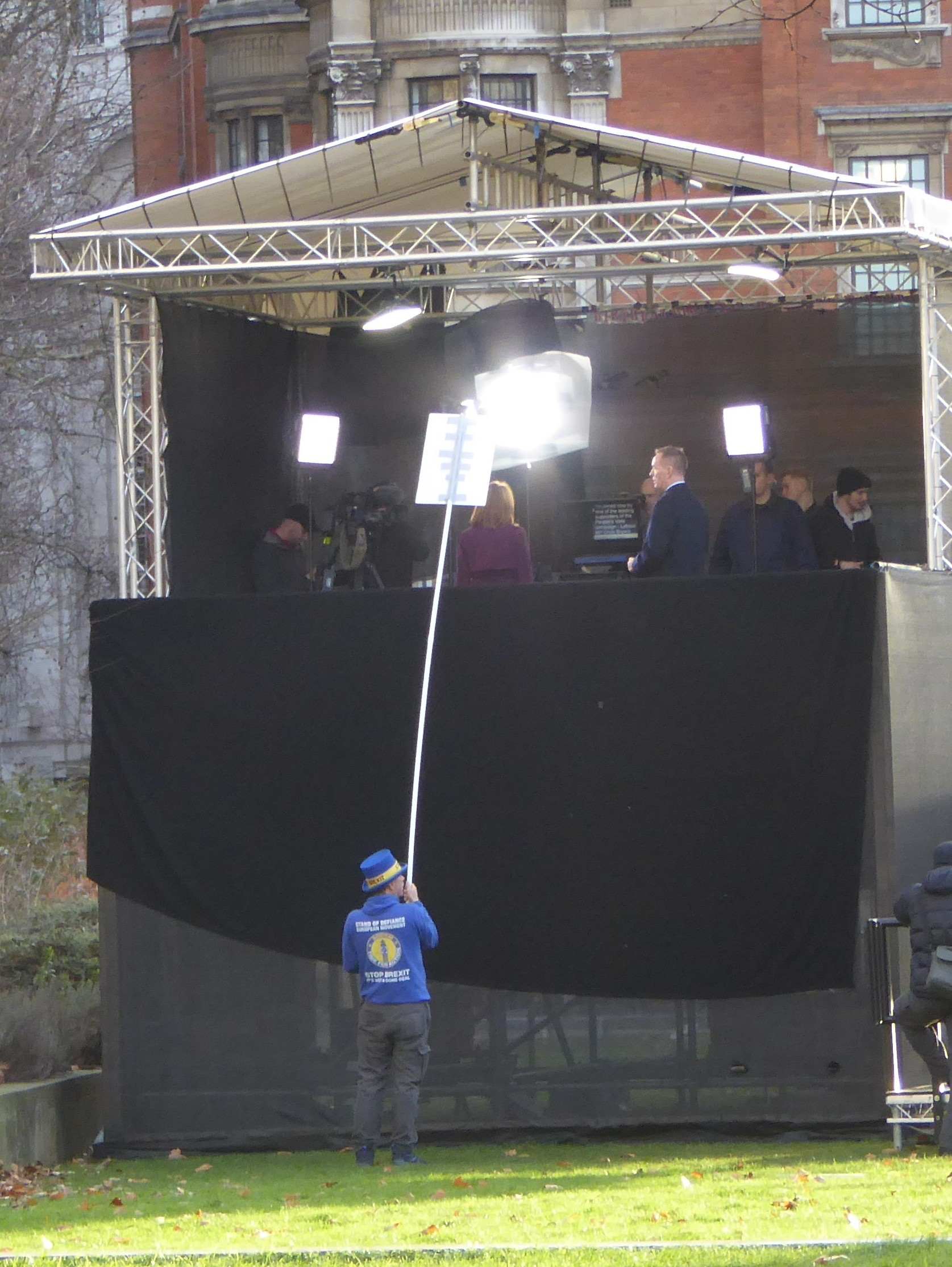 Steve Bray standing in front of the Sky TV Media Tent during a broadcast, on the day that Jeremy Corbyn called a Vote of No Confidence.